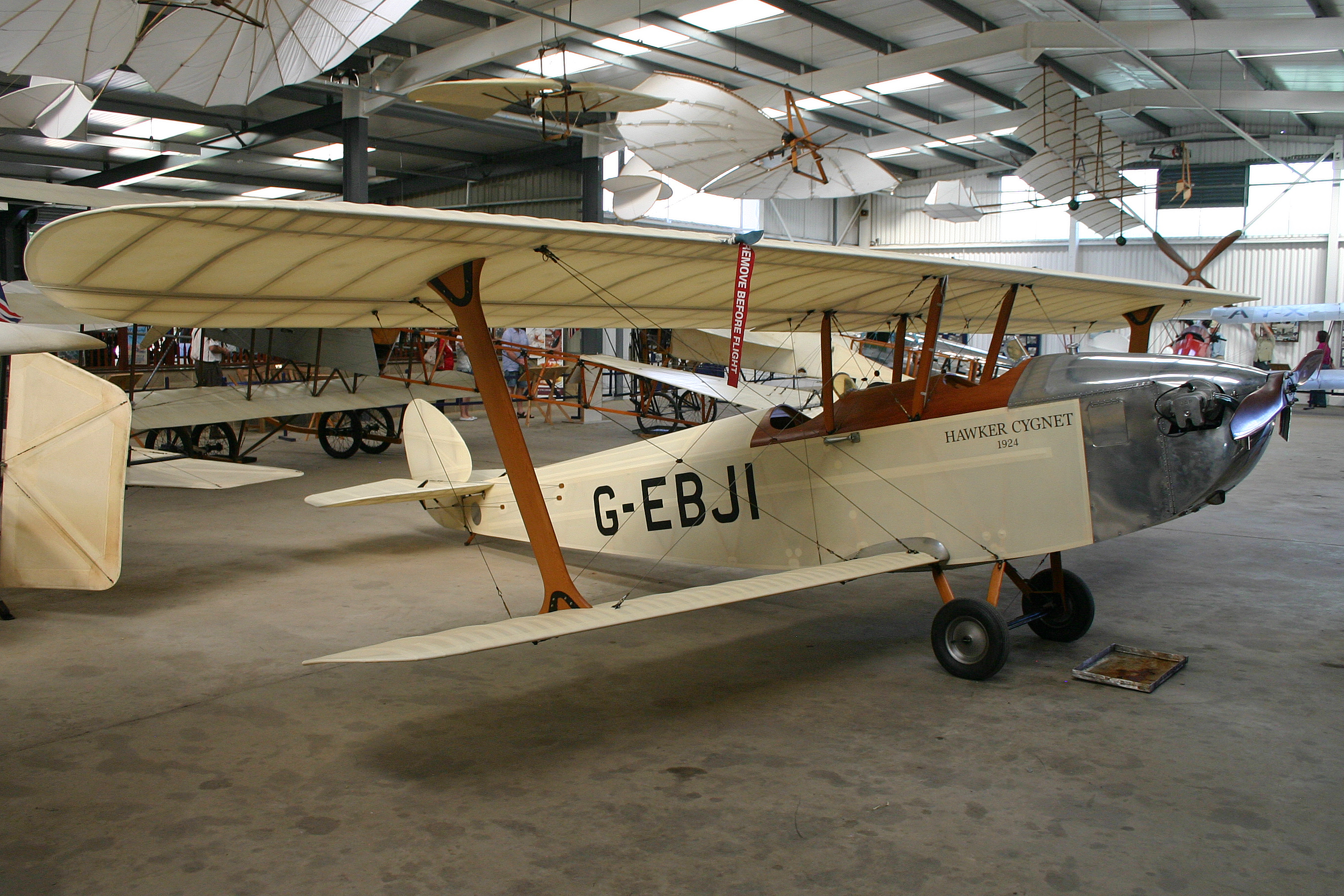 Based at Old Warden. msn PFA/77-10245 Old Warden 02-10-2011